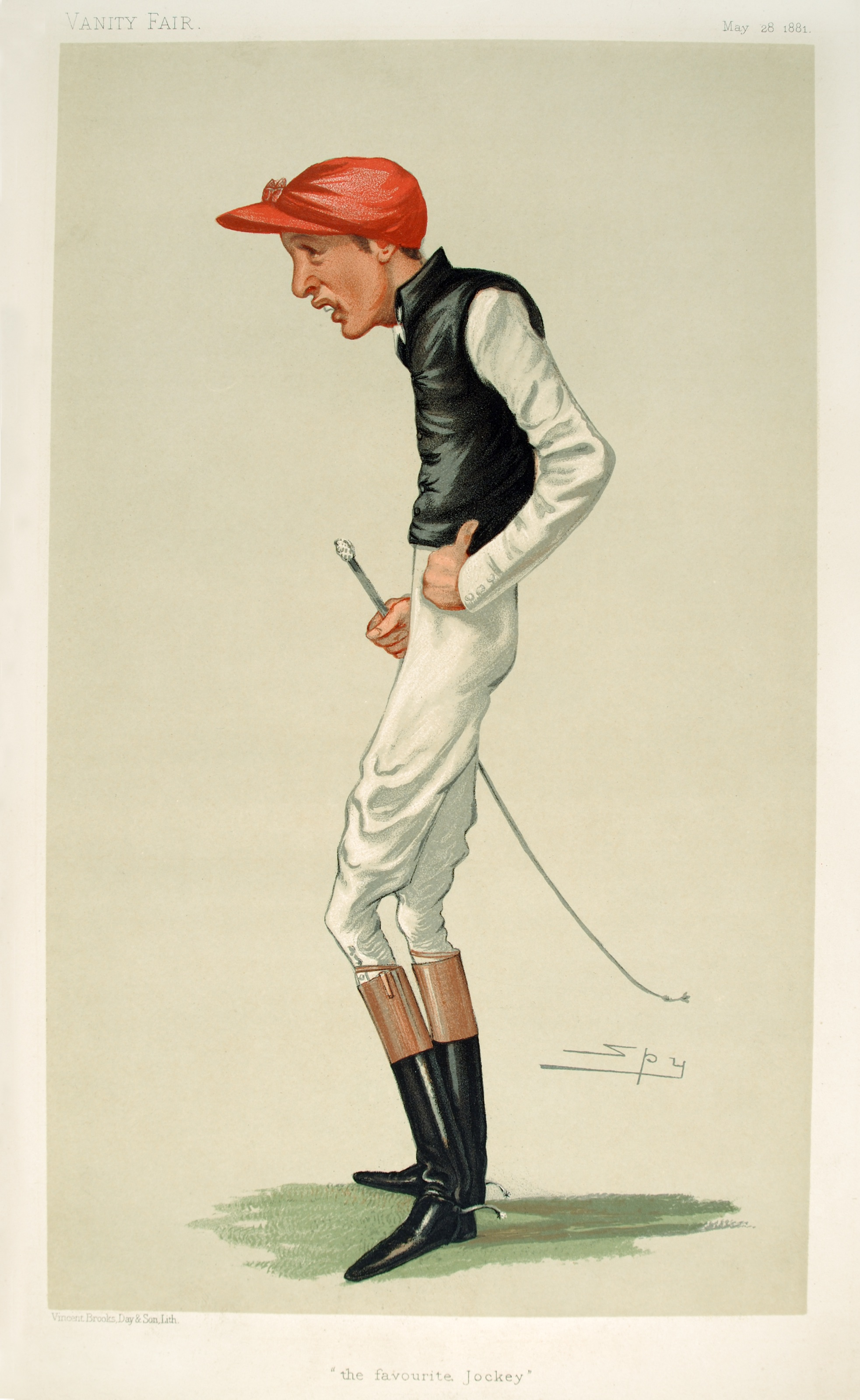 Men of the Day No.245: Caricature of Frederick J. Archer. Caption reads: "the favourite Jockey."